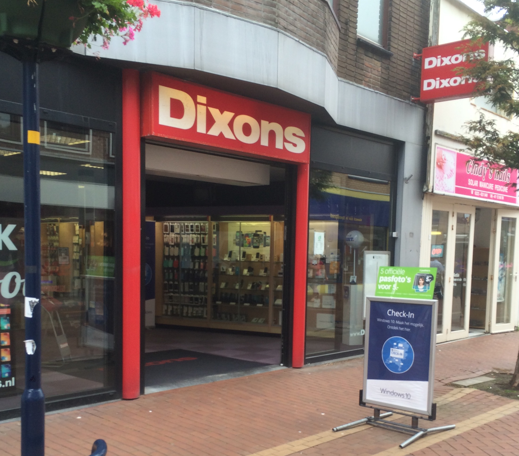 Dixons Shop